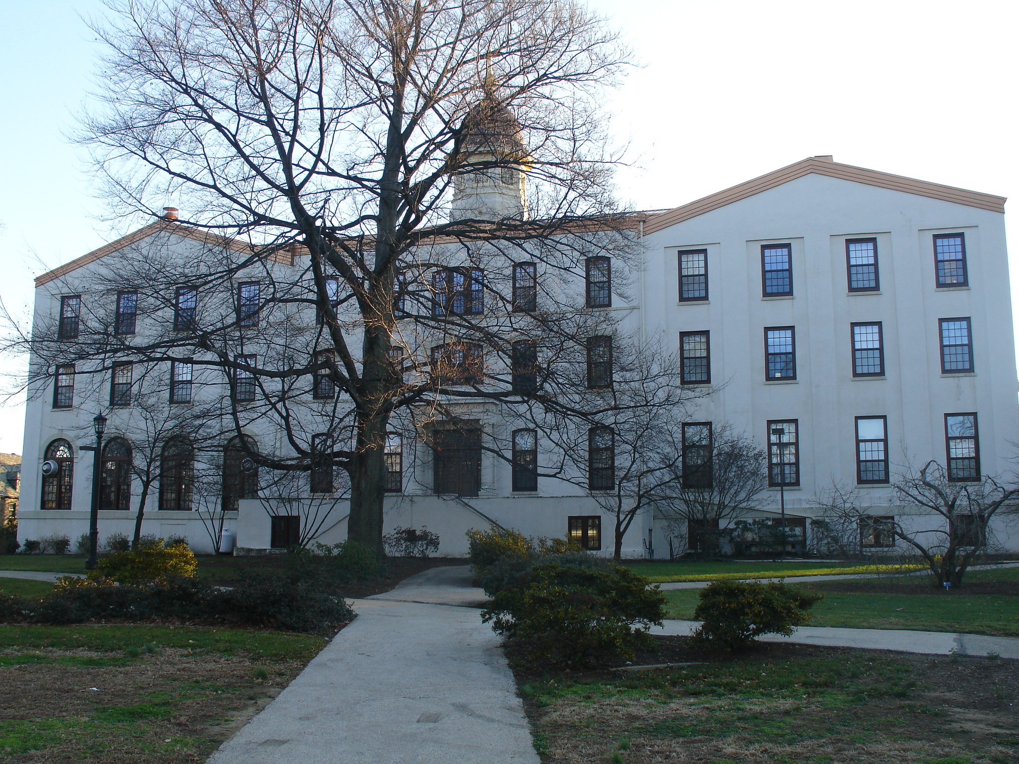 Alumni Hall on the campus of Villanova University, Villanova, Pennsylvania, USA. Taken by submitter 19 Dec 2006.